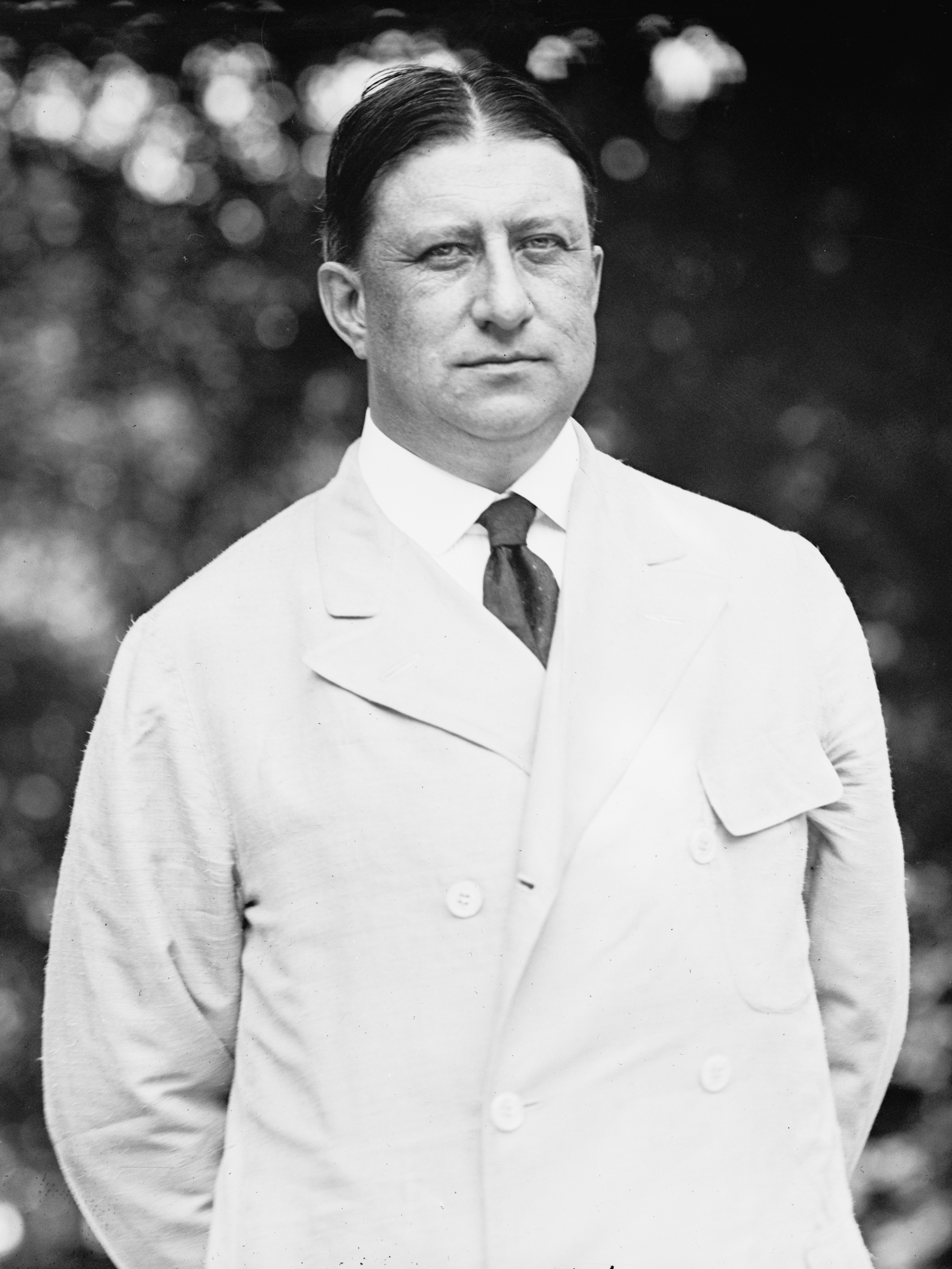 Title: REPUBLICAN NATIONAL COMMITTEE. BARNES, WILLIAM, JR., OF NEW YORK Abstract/medium: 1 negative : glass ; 5 x 7 in. or smaller